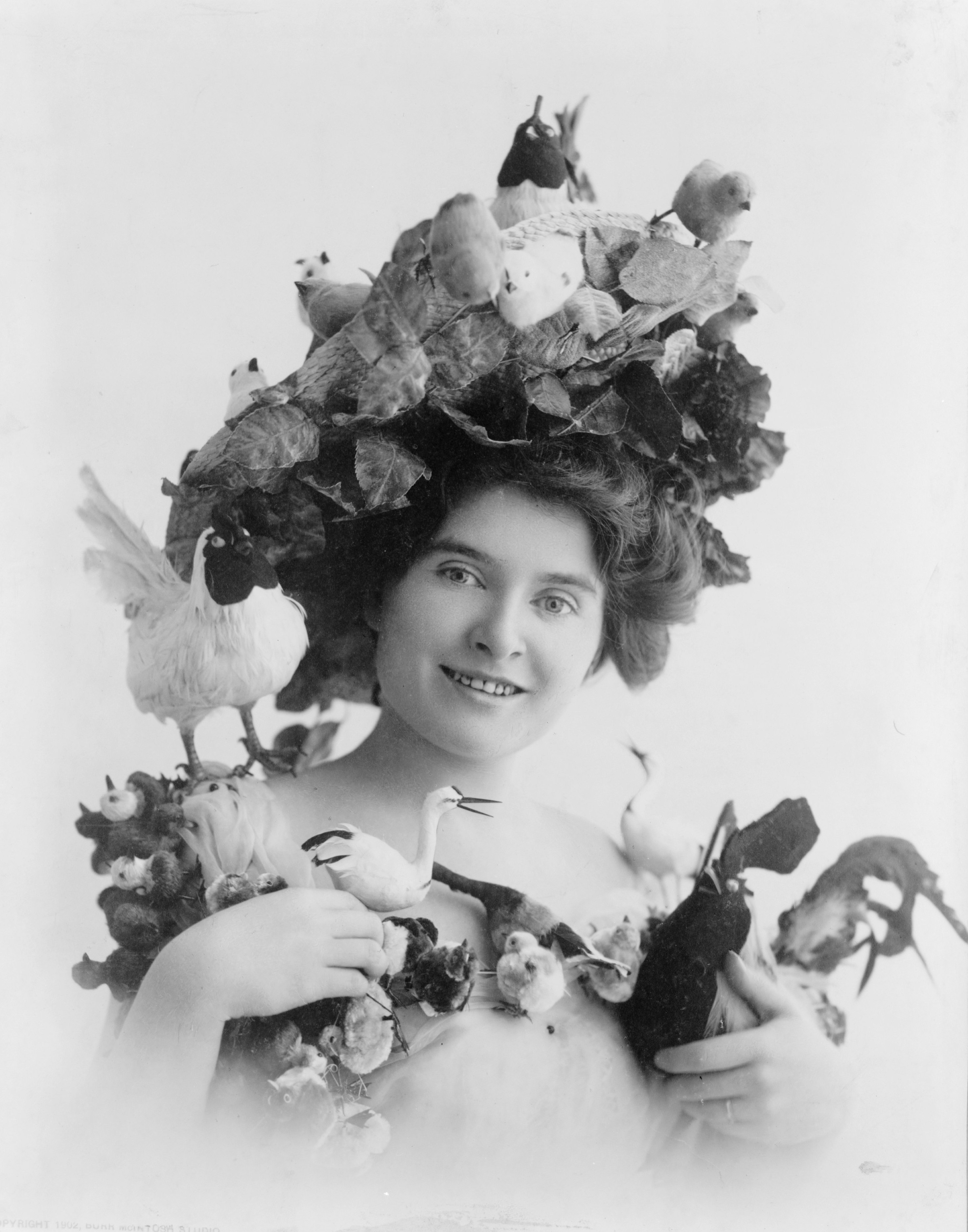 Christie MacDonald, half-length portrait, facing front, wearing artificial birds on a hat and on the bodice of her dress